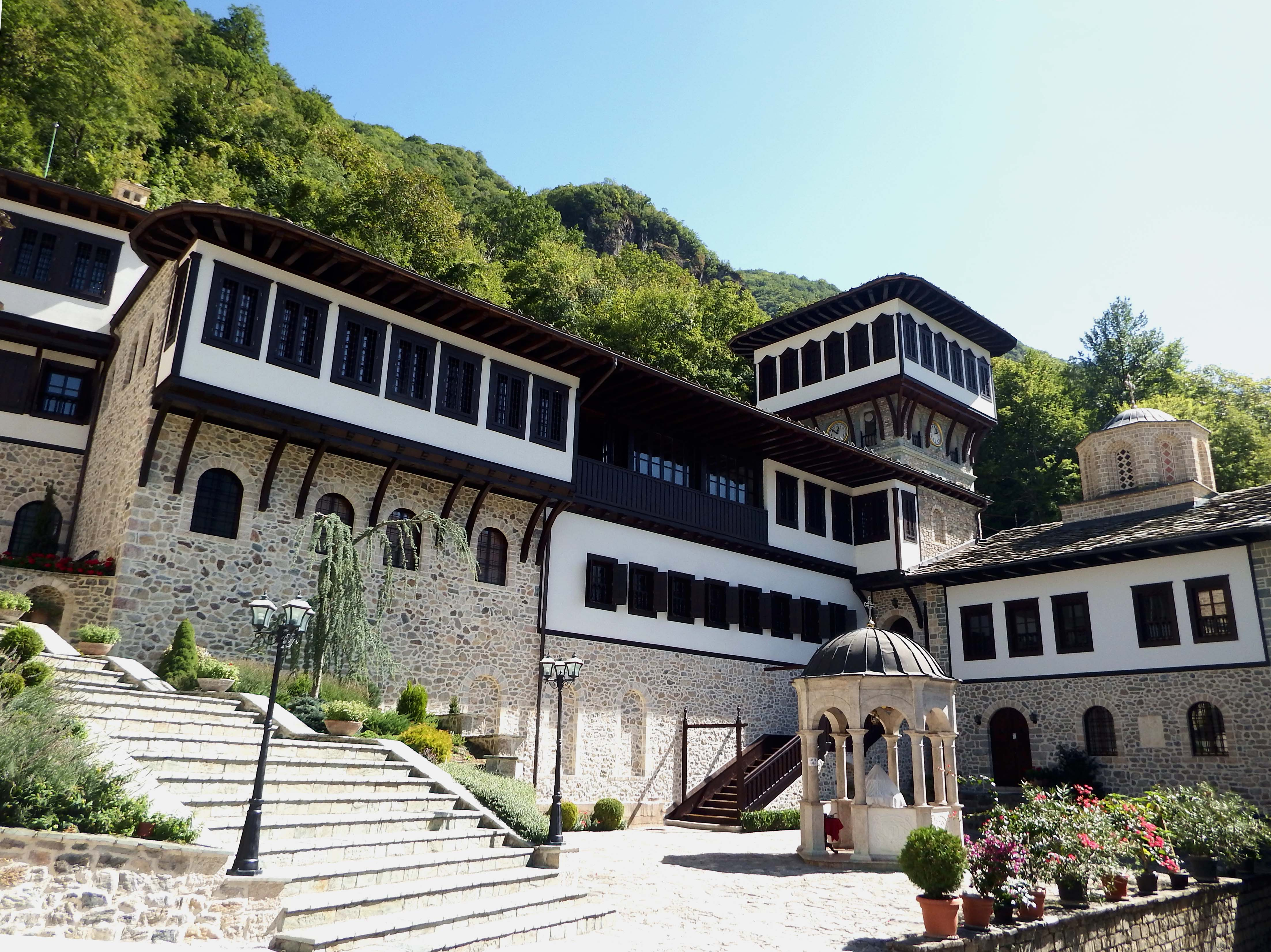 St.John the Baptist Monastery, Macedonia Ова е фотографија на споменик на културата во Македонија со типски код: Ова е фотографија на споменик на културата во Македонија со типски код: A01This is a a photo of a cultural monument in North Macedonia with type id: A01 This is a a photo of a cultural monument in North Macedonia with type id: Ова е фотографија на споменик на културата во Македонија со типски код: A01This is a a photo of a cultural monument in North Macedonia with type id: A01